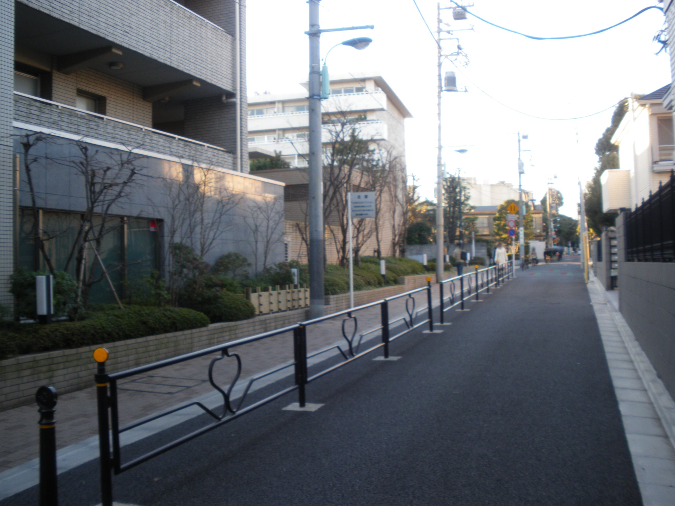 A photo of Mejirozaka slope,Sekiguchi,Bunkyo-ku,Tokyo,Japan.